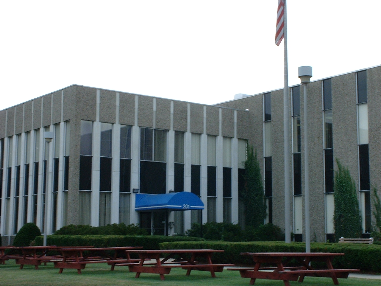 The office building at 201 Burlington Road, Bedford, Massachusetts that formerly housed w;ComputervisonInc, an early manufacturer of computer-aided design system. In the 1960s it housed an early manufacturer of computer terminals.